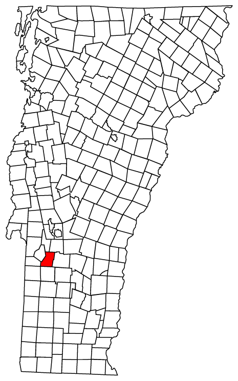 Description: Map of Vermont towns with Tinmouth highlighted Source: Map created by Jared C. Benedict on 26 March 2004. Copyright: © Jared C. Benedict.